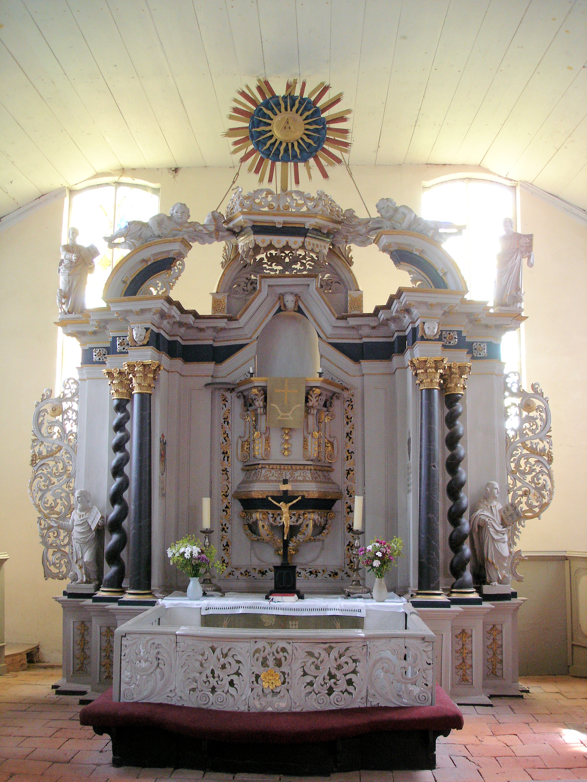 Altar of the church in Lärz, Mecklenburg, Germany